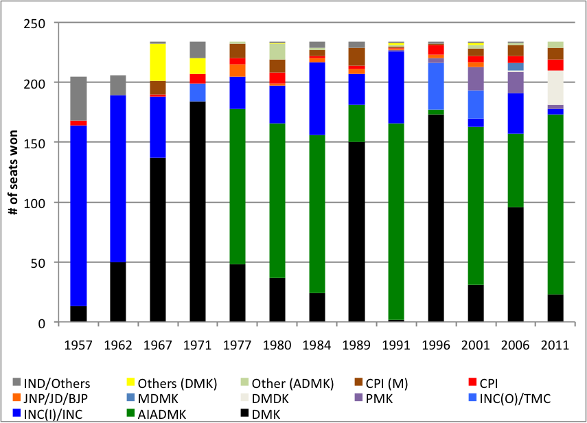 Made a stacked bar graph of all assembly elections from 1957-2011. Note in 1989 election, ADMK is represented by all the splinter groups (ADMK (JL), ADMK (JR), ADMK (United)). Also, Other (DMK) represents other parties supporting DMK and Other (ADMK) represents other parties supporting ADMK